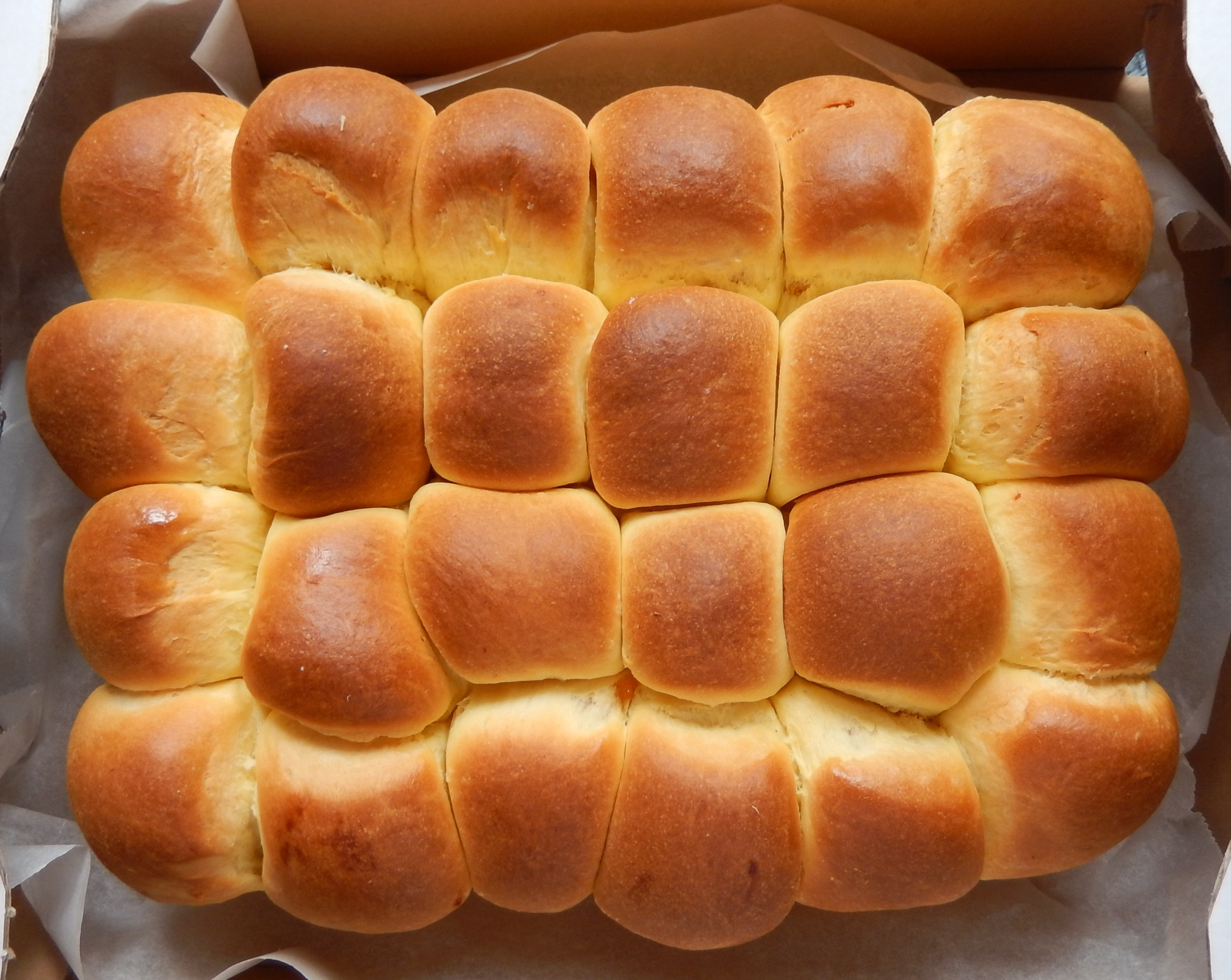 Buchteln